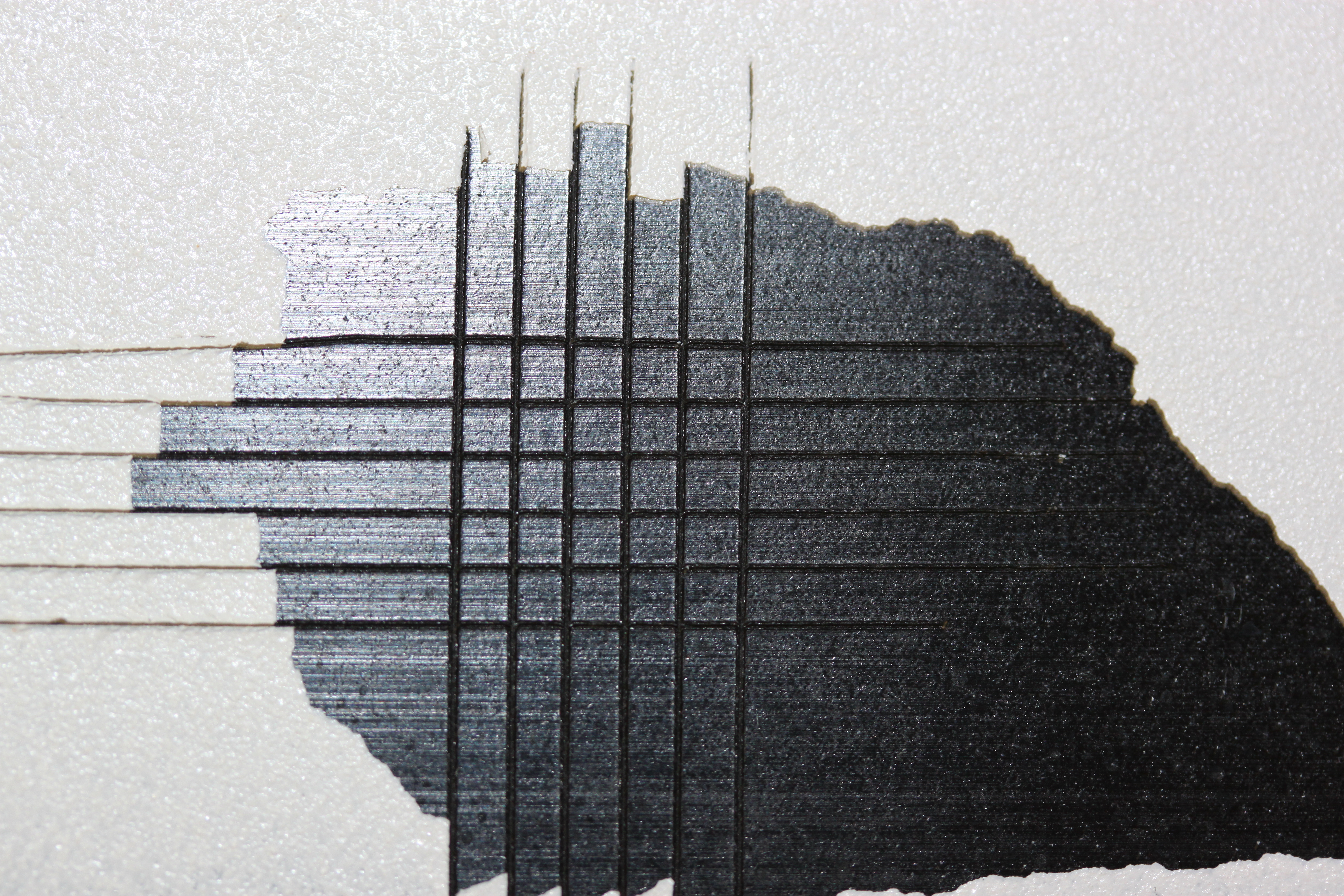 Cross-Cut Test with the worst possible result, Gt 5.